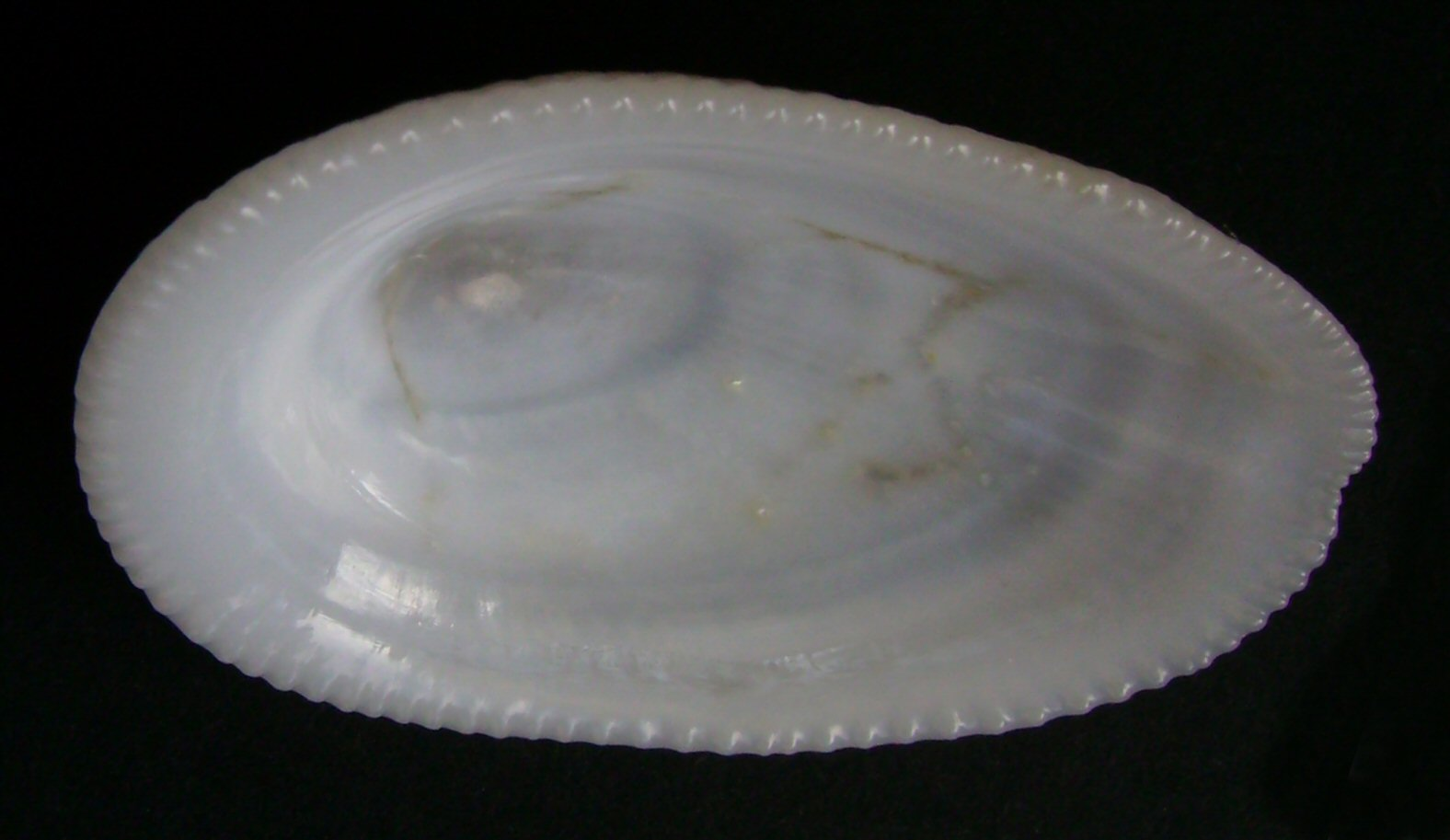 Tugali elegans (inside), from Langs Beach, New Zealand. This work has been released into the public domain by its author, Graham Bould. This applies worldwide. In some countries this may not be legally possible; if so: Graham Bould grants anyone the right to use this work for any purpose, without any conditions, unless such conditions are required by law. .